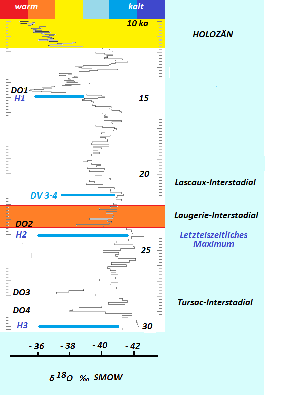 Diagram showing the position of the Laugerie interstadial (marked in red) within the time range 10 to 30 ky BP. The δ18O values from GISP-2 follow the diagram of Wolfgang Weißmüller. The positions of the Dansgaard-Oeschger events DO1 to DO4 and the Heinrich events H1 to H3 are also indicated. DV 3-4 is a cold events marked by ice wedges in the upper loess of Dolní Veštonice.